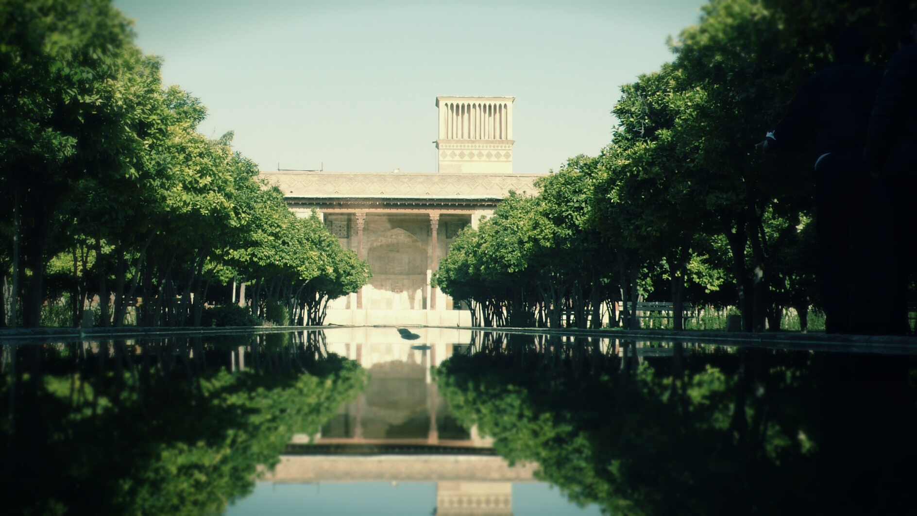 Arg of karim khan